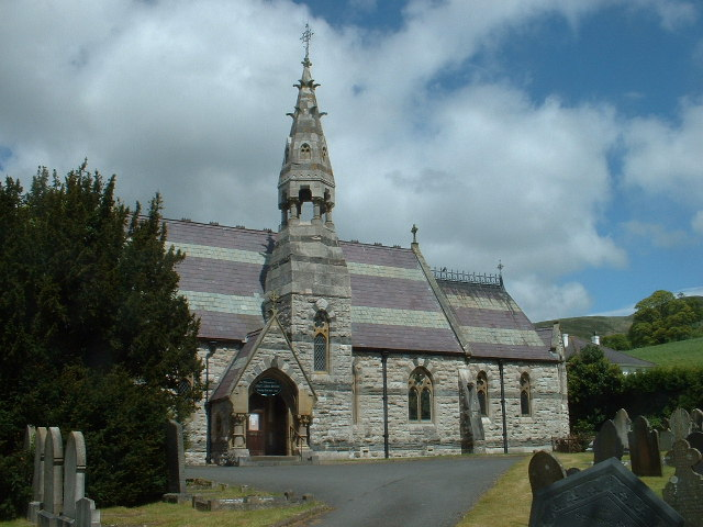 The Church, Llanbedr Dyffryn-Clwyd.